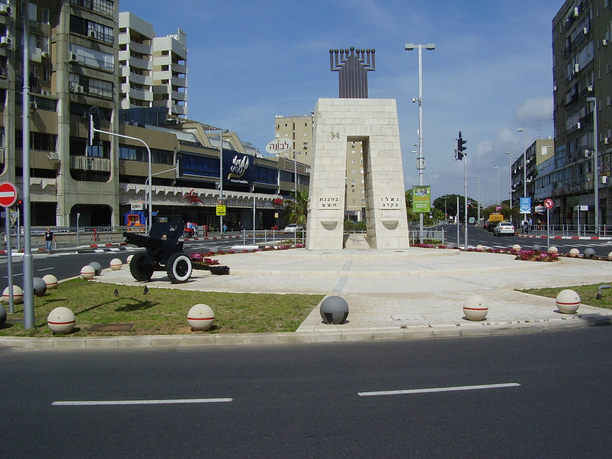 independence war memorial in bat-yam